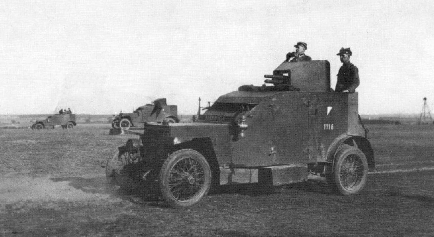 French Peugeot armored car in Polish service.